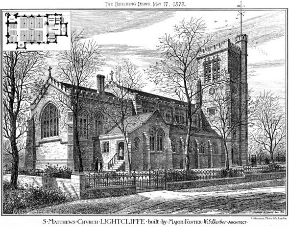 Engraving or lithograph of St Matthew's Church, Lightcliffe nr Halifax, West Yorkshire, England. Designed in 1875 by William Swinden Barber.